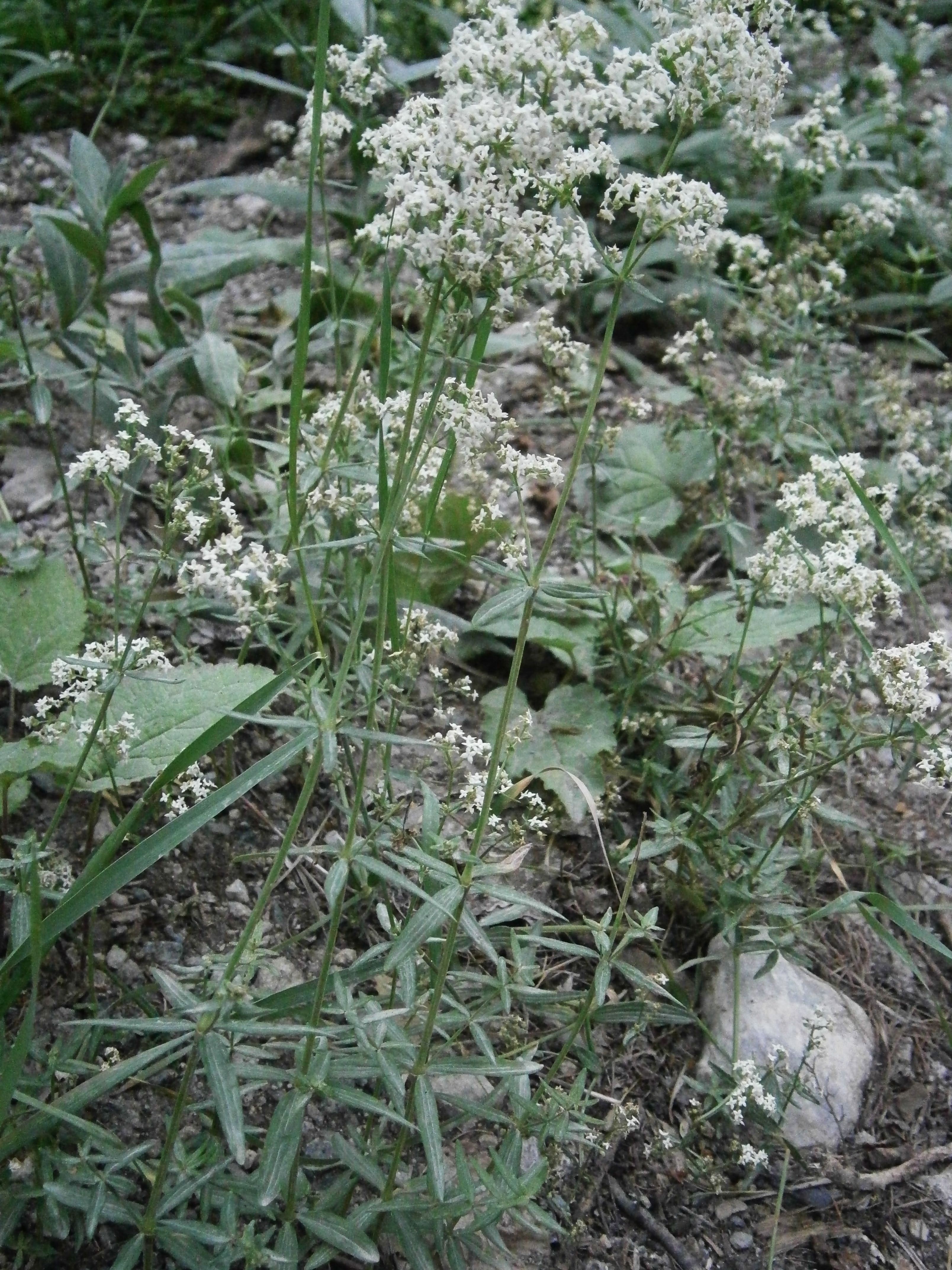 Galium boreale